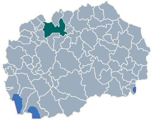 Category:Administrative units of the Republic of Macedonia Category:Maps of the Republic of Macedonia